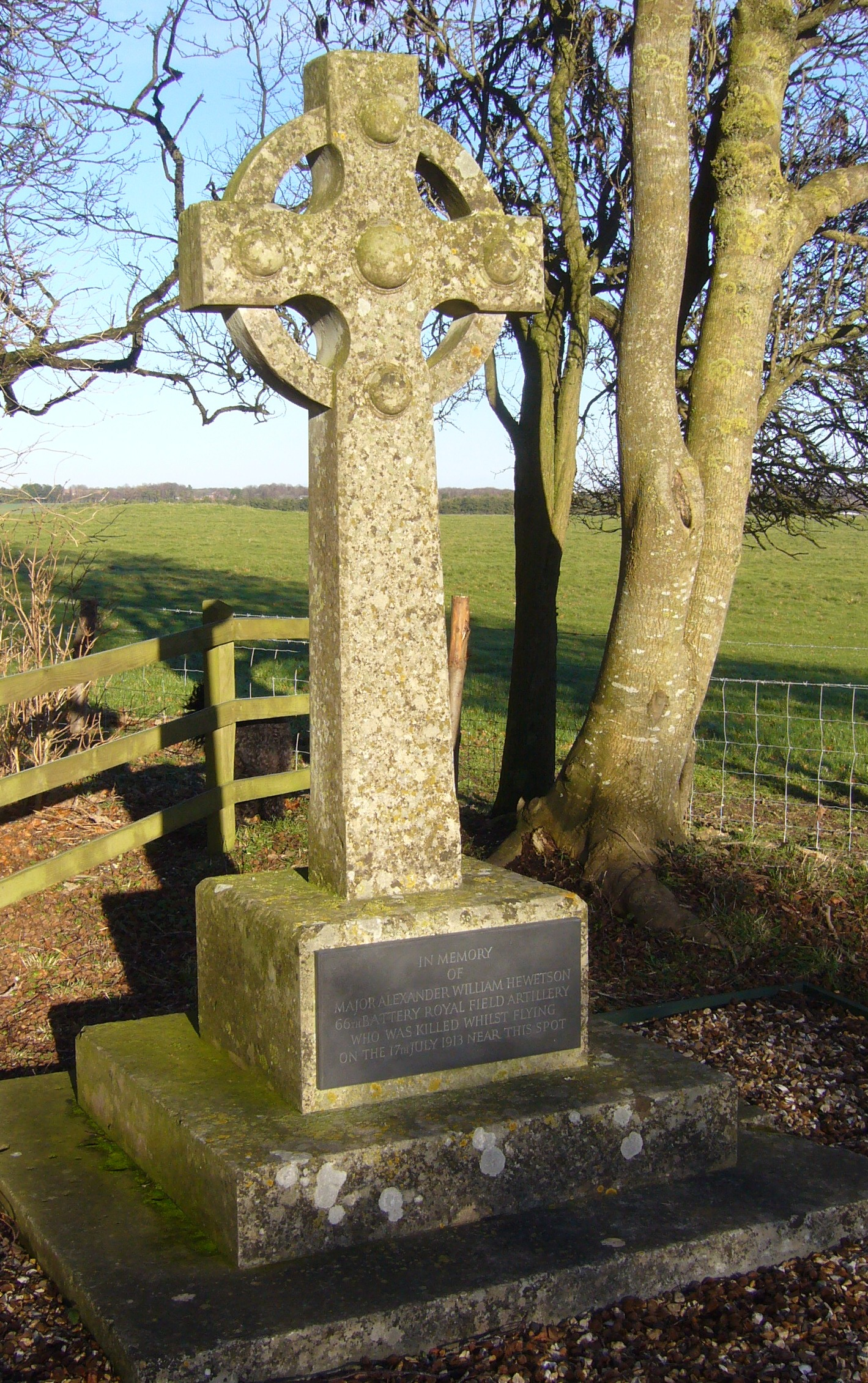 Memorial to major Hewetson killed in a flying accident 17th July 1913 near Stonehenge, Wiltshire